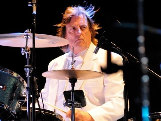 Prairie Prince, Drumming during Todd Rundgren's "A Wizard, A True Star Tour" San Fransisco CA